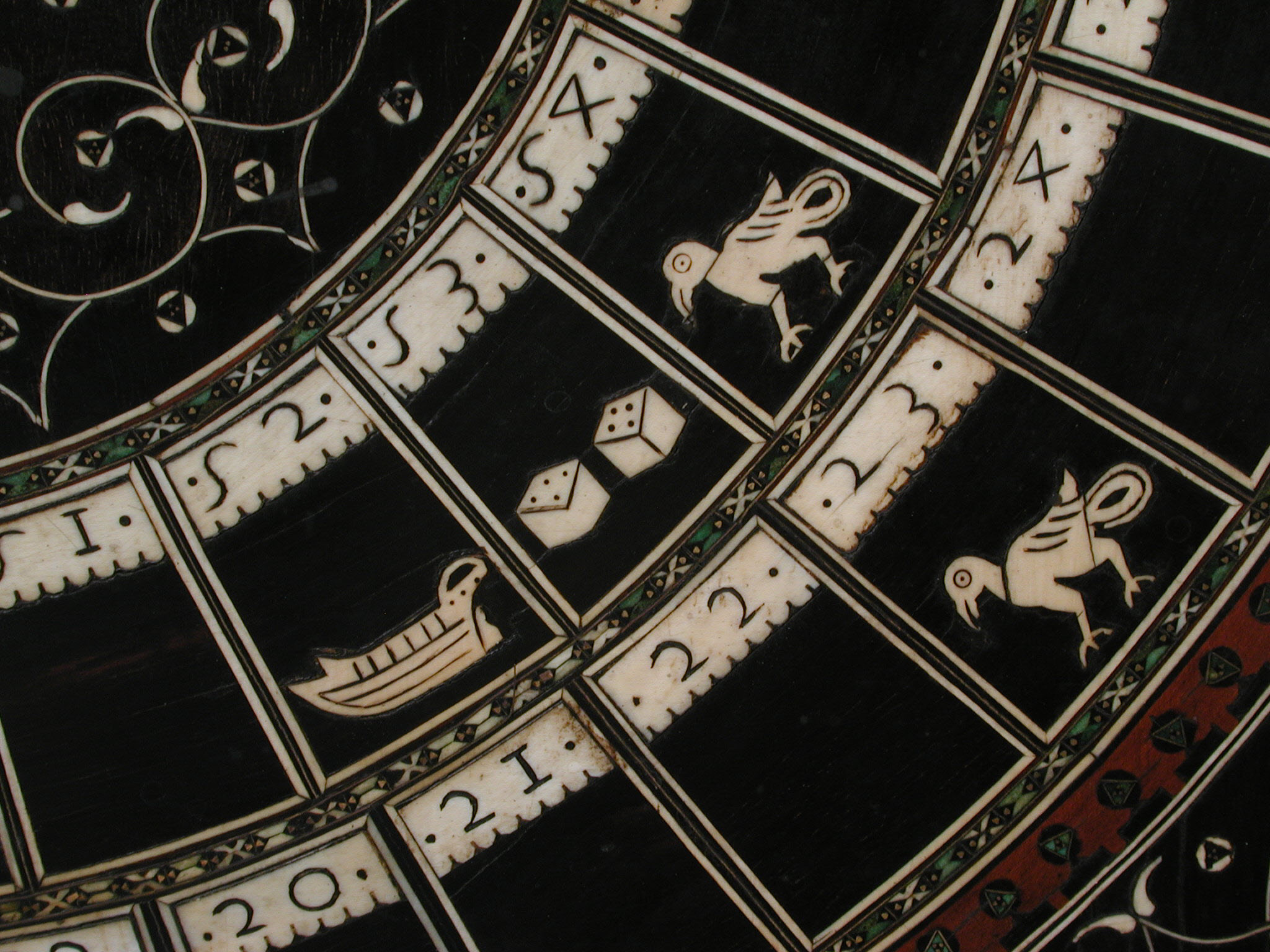 India, Gujarat; Game board; Chess Sets